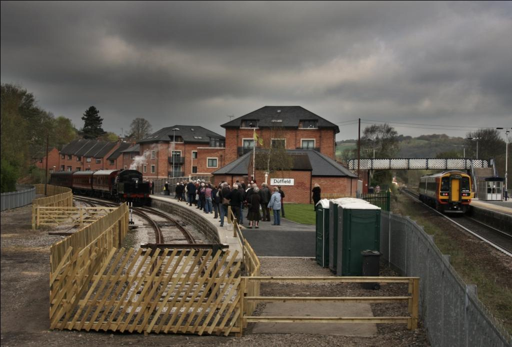 Duffield Branch Line Platform in April 2011, near to Duffield, Derbyshire, Great Britain. The Wirksworth Branch platform on 7th April 2011 at Duffield station. Reopened to public services the following day, this is the platform used by the Ecclesbourne Valley Railway.